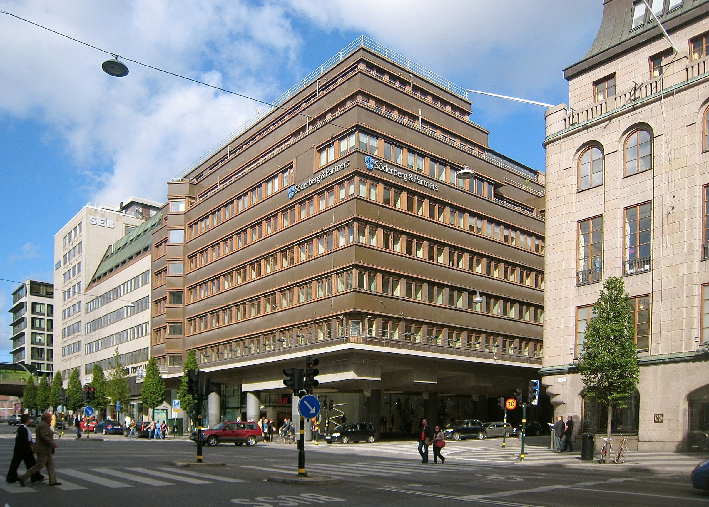 Hästskopalatset [Horseshoe palace] in Stockholm, Sweden.